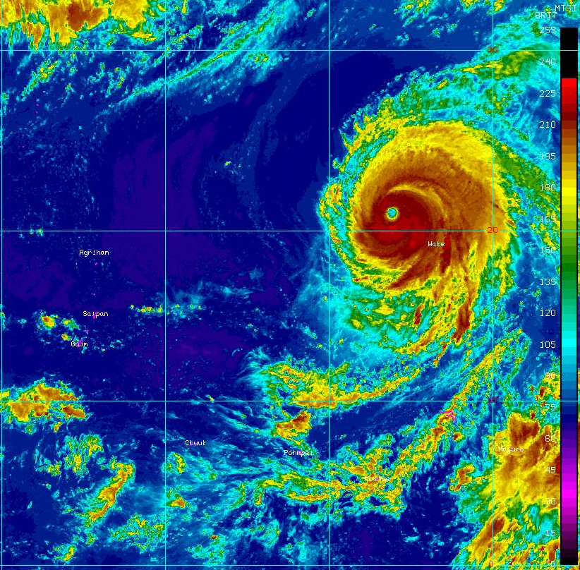 Colour Infrared imagery of Typhoon Ioke northwest of Wake on 2006-09-01. Slightly cropped from original image.